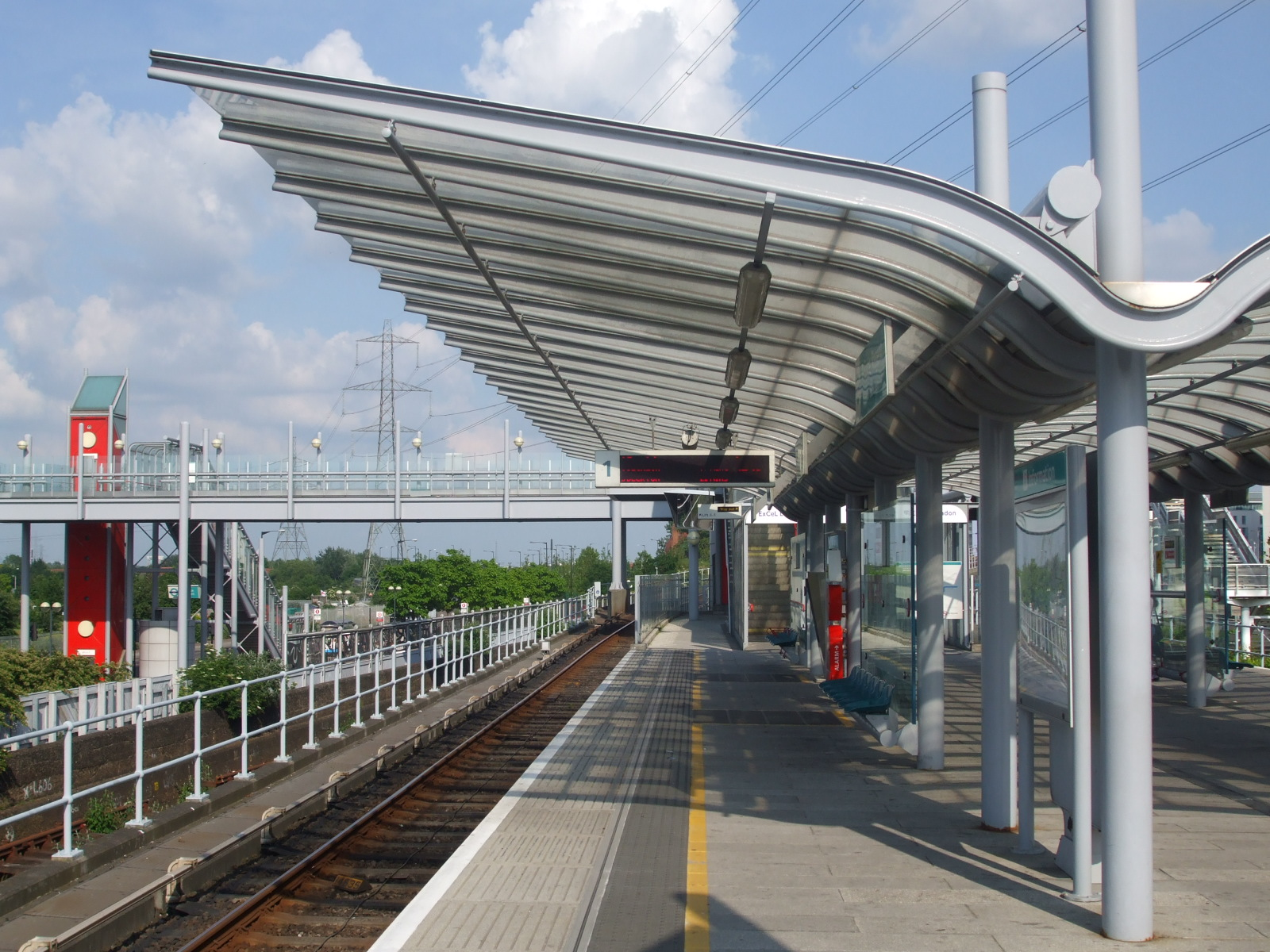 Prince Regent DLR station looking east. The now disused former North London Line single track towards North Woolwich can be glimpsed descending into tunnel to the left